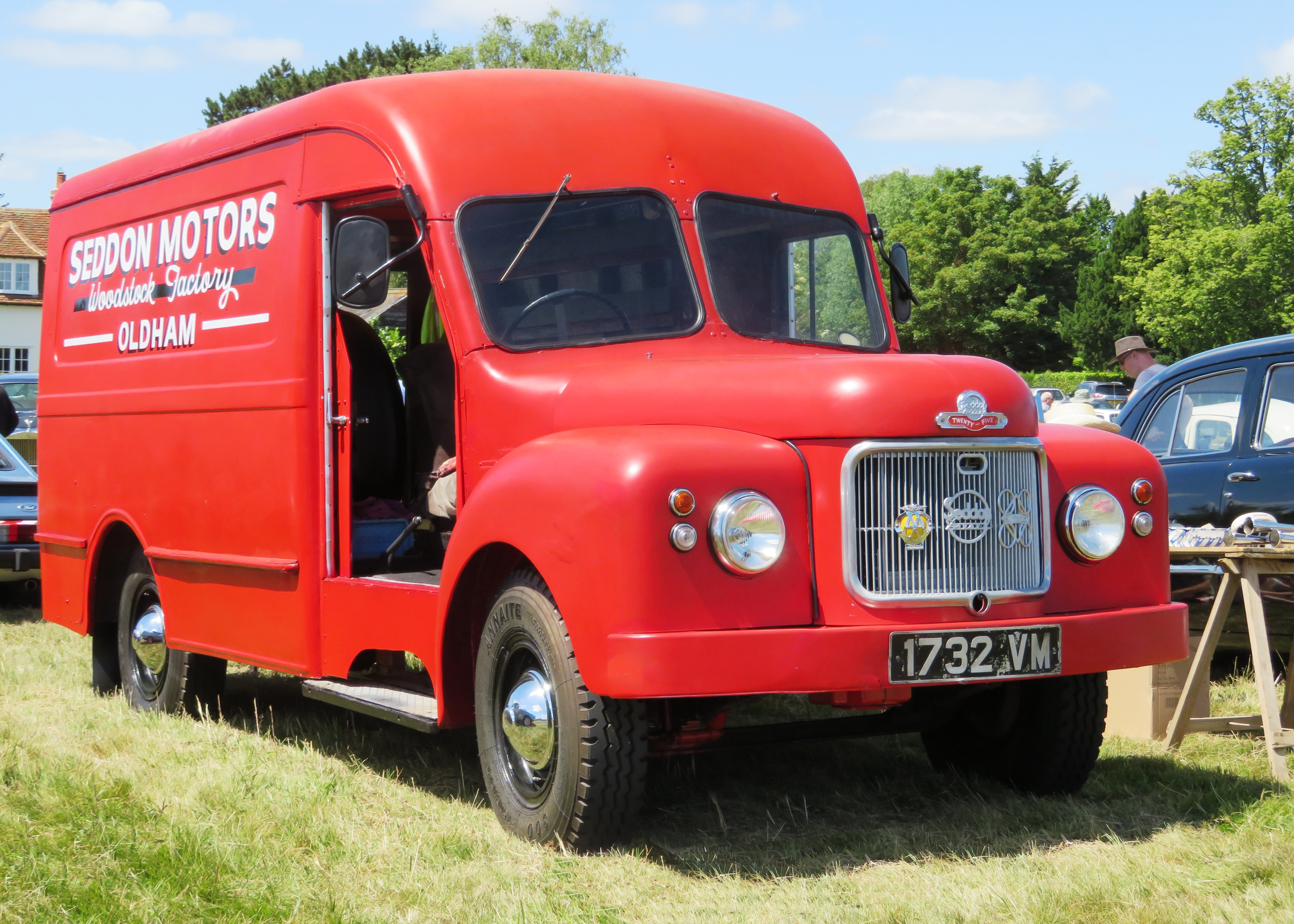 Seddon Diesel 25 Built in 1954 it was used as Seddon Factory parts van on trade plates and then sold away from Seddon in 1963 when it was registered at dvla.